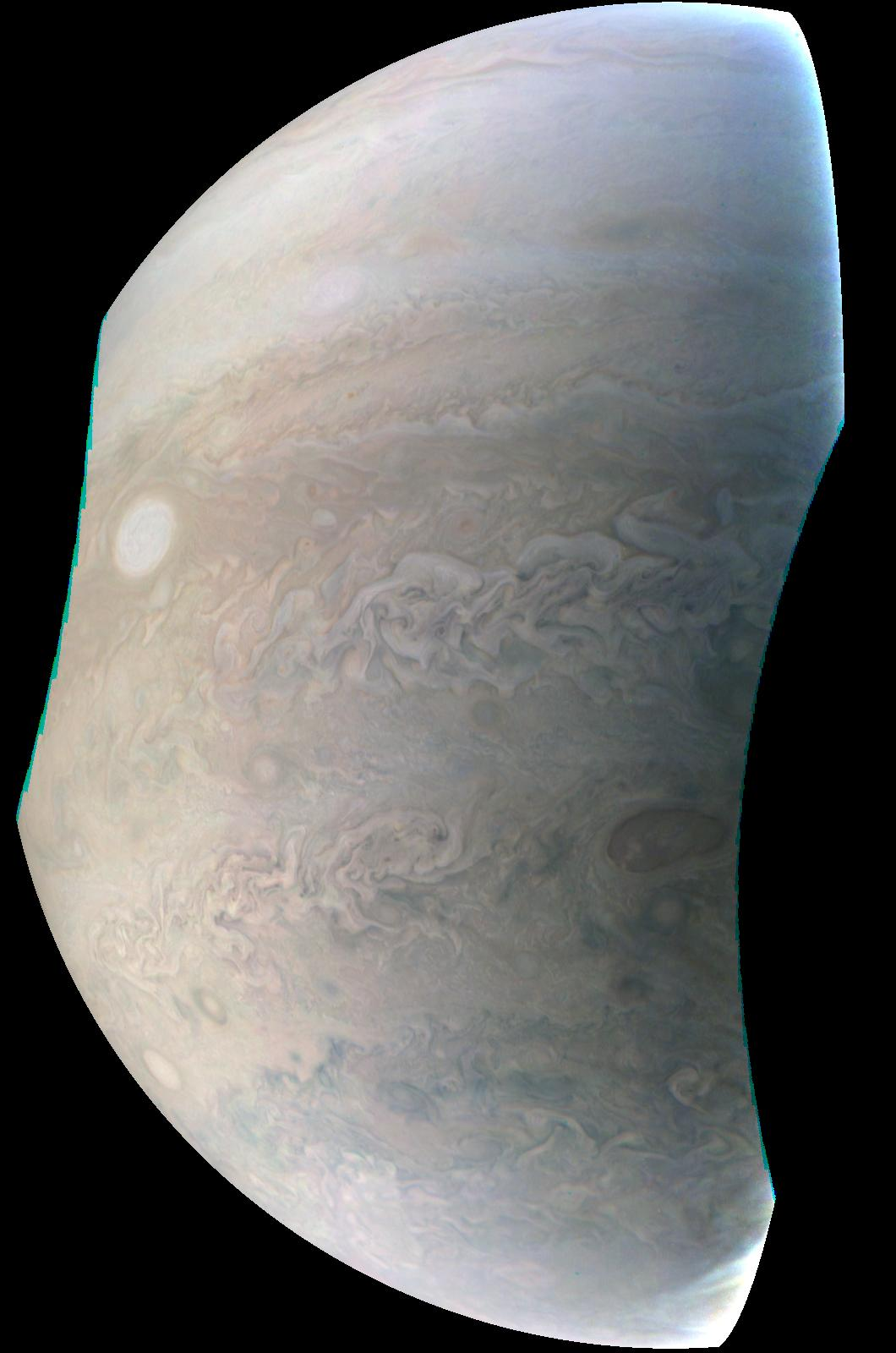 This image, taken by the JunoCam imager on NASA's Juno spacecraft, highlights the seventh of eight features forming a 'string of pearls' on Jupiter -- massive counterclockwise rotating storms that appear as white ovals in the gas giant's southern hemisphere. Since 1986, these white ovals have varied in number from six to nine. There are currently eight white ovals visible. Since 1986, these white ovals have varied in number from six to nine. There are currently eight white ovals visible. The image was taken on Dec. 11, 2016, at 9:27 a.m. PST (12:27 EST) as the Juno spacecraft performed its third close flyby of the planet. At the time the image was taken, the spacecraft was about 15,300 miles (24,600 kilometers) from Jupiter. JunoCam is a color, visible-light camera designed to capture remarkable pictures of Jupiter's poles and cloud tops. As Juno's eyes, it will provide a wide view, helping to provide context for the spacecraft's other instruments. JunoCam was included on the spacecraft specifically for purposes of public engagement; although its images will be helpful to the science team, it is not considered one of the mission's science instruments. NASA's Jet Propulsion Laboratory, Pasadena, California, manages the Juno mission for the principal investigator, Scott Bolton, of Southwest Research Institute in San Antonio, Texas. The Juno mission is part of the New Frontiers Program managed by NASA's Marshall Space Flight Center in Huntsville, Alabama for the Science Mission Directorate. Lockheed Martin Space Systems, Denver, Colorado, built the spacecraft. JPL is a division of Caltech in Pasadena, California.